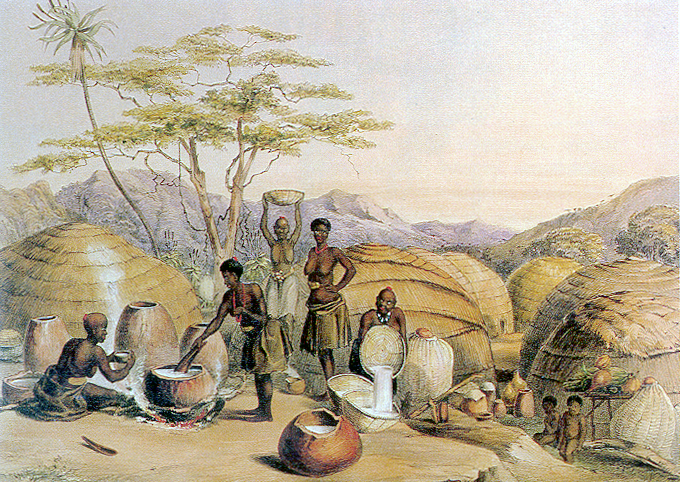 Zulu women busy brewing beer. They also made the earthenware which they are using.